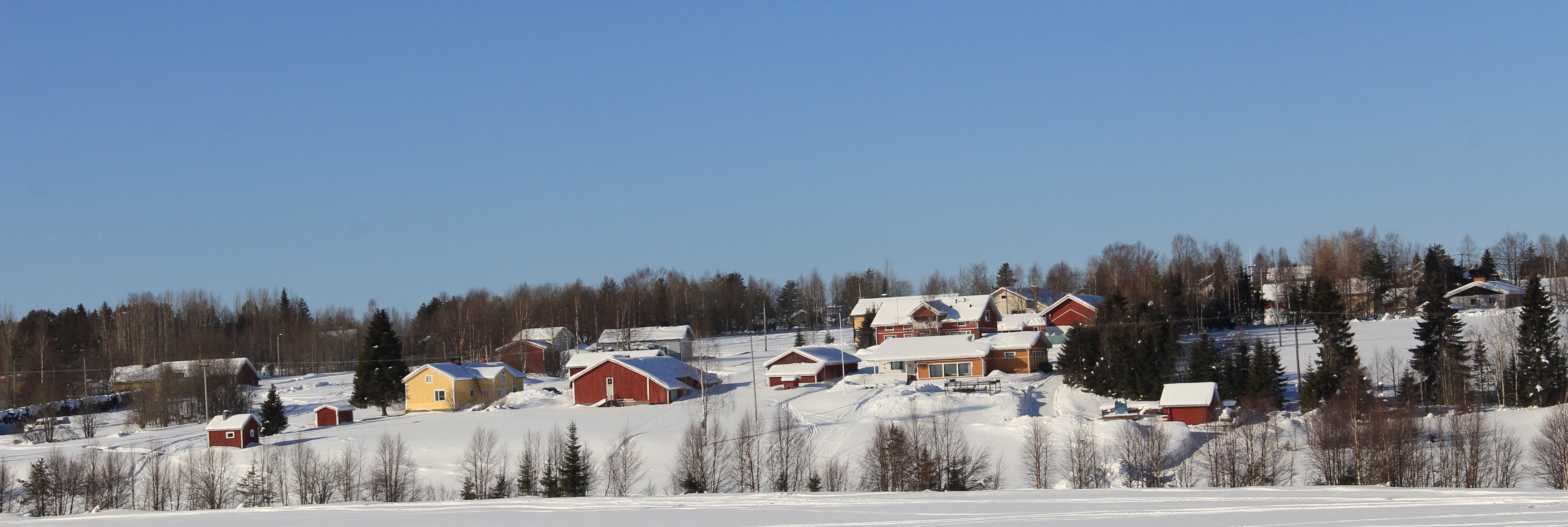 View of Kaukonen village in Kittilä, Finland.